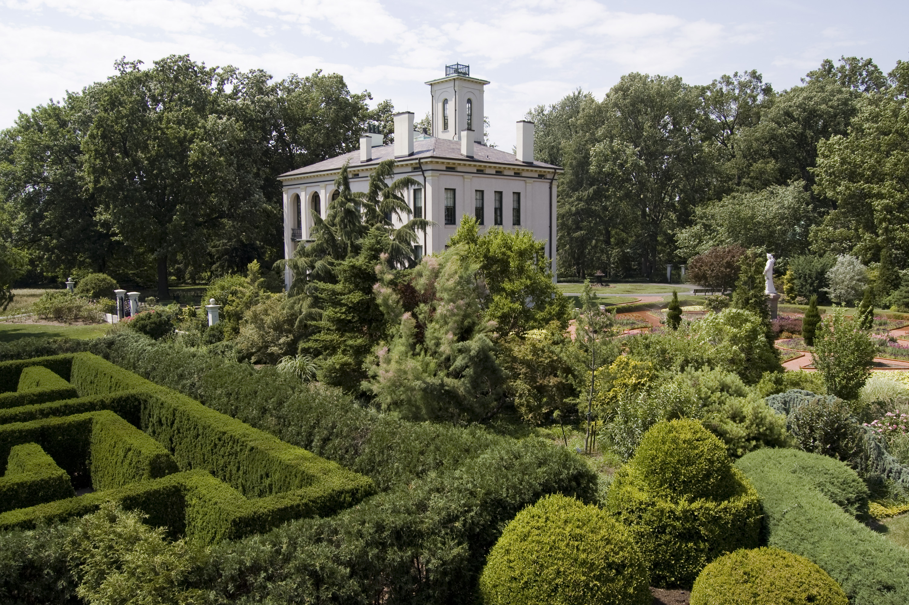 Tower Grove House from the Piper Observatory